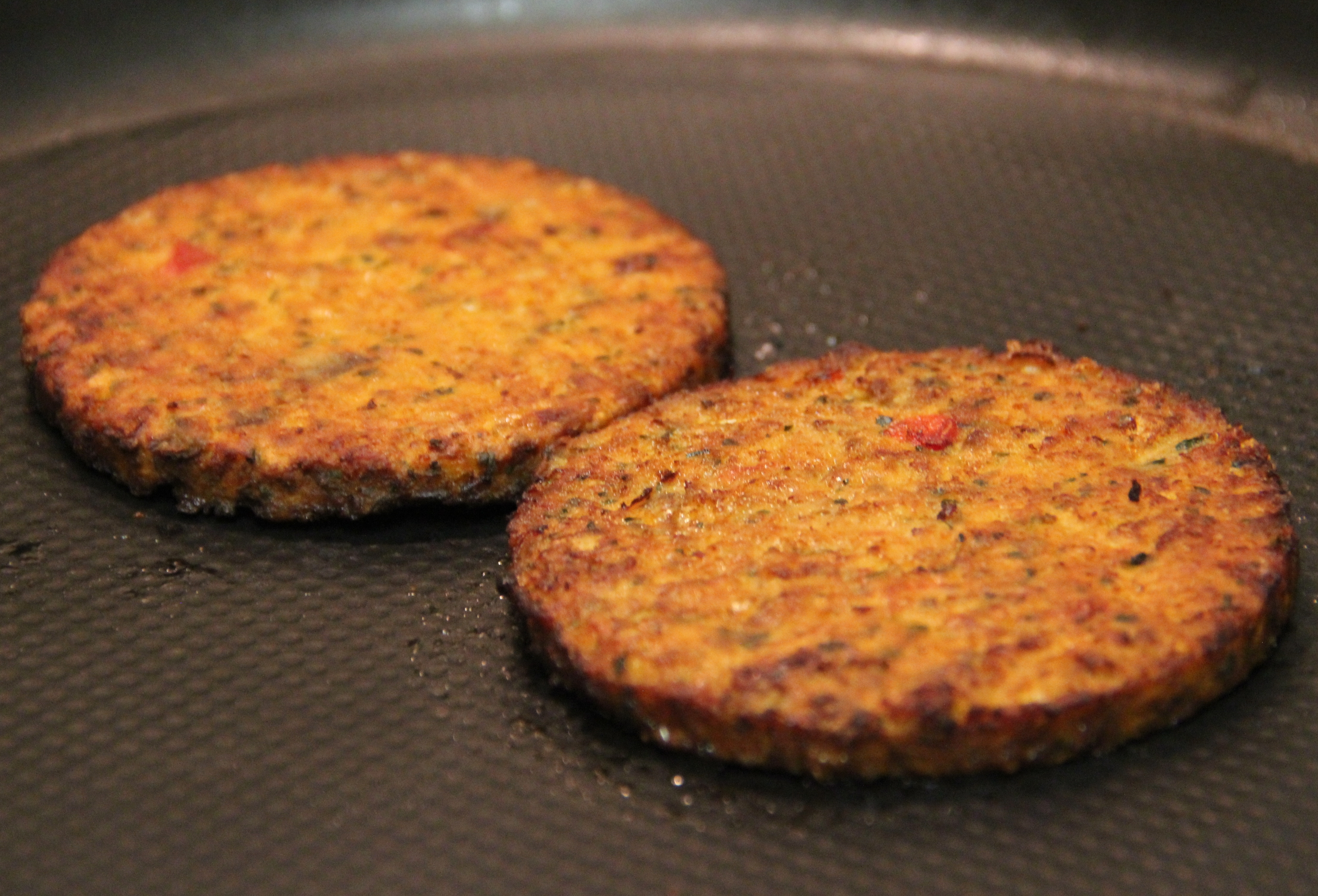 Two Morningstar Farms Tomato & Basil Pizza veggie burgers on a frying pan